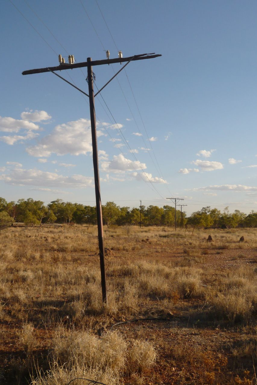 Telegraph poles near the Tennant Creek Telegraph Station